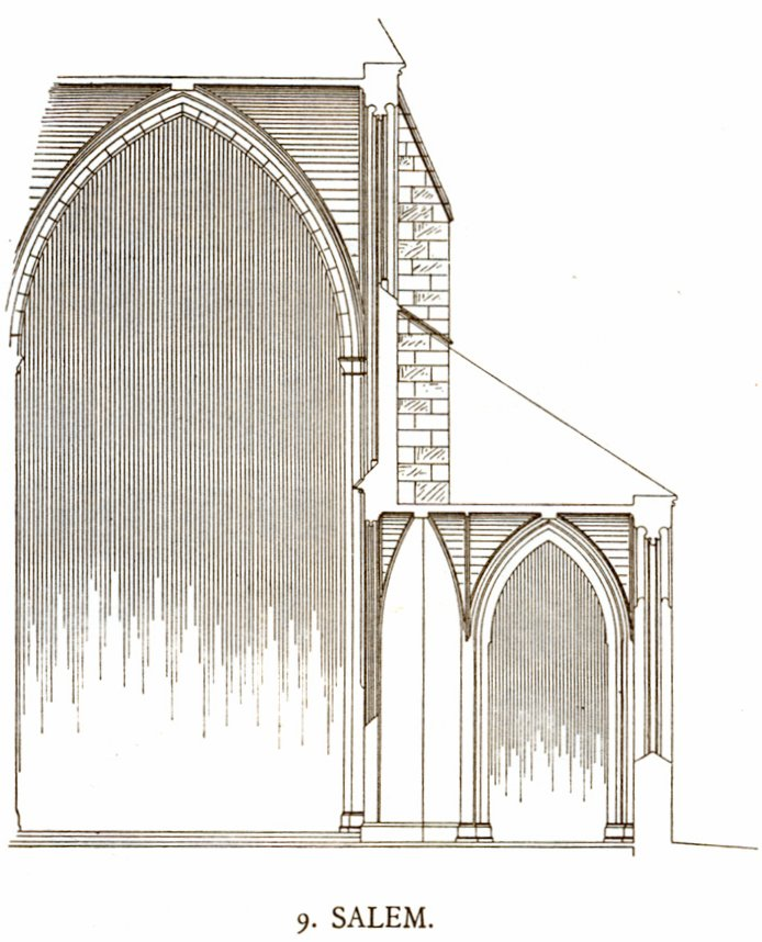 Minster of Salem (Germany), Vertical cut.